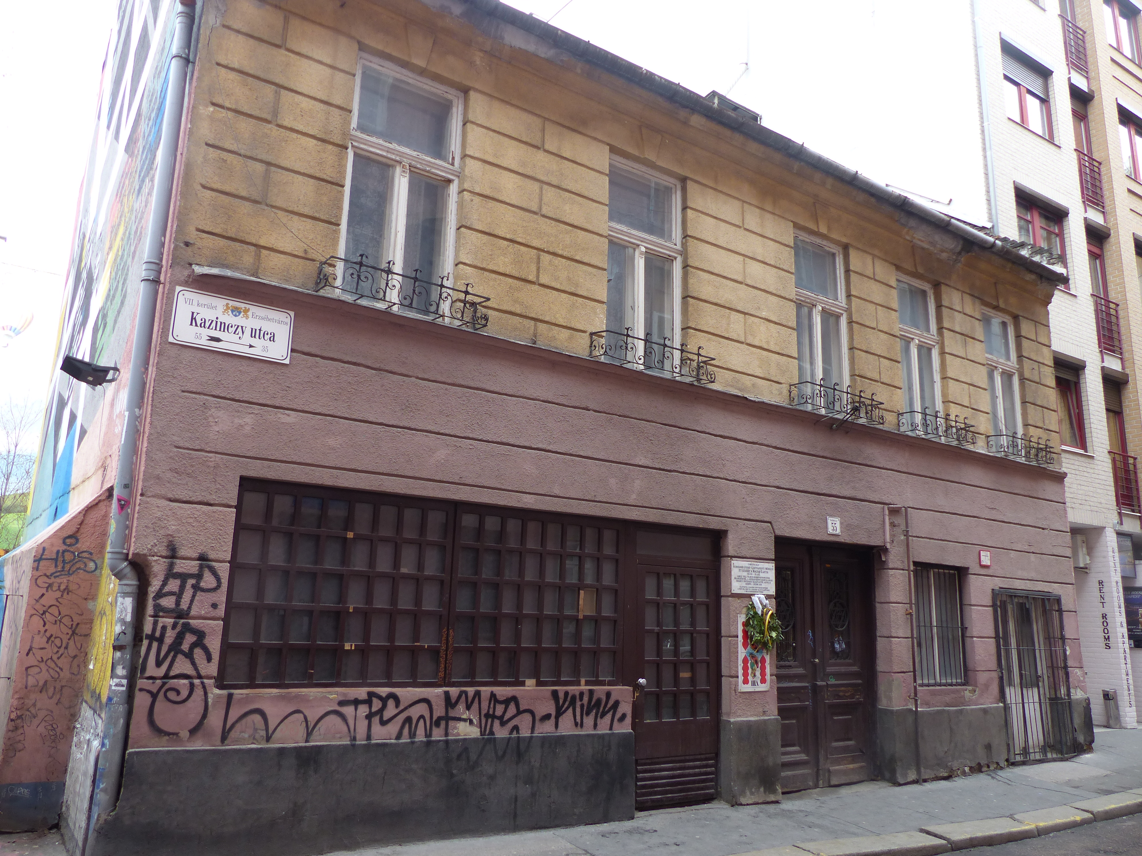 Schneider József Card Painting Workshop. Kazinczy utca 55 szám (former name of the streetː Kiskereszt utca 520. szám), Budapest, Hungary. This was the house, where Schneider József painted the first hungarian cards in 1835.